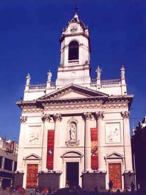 Basílica of San José de Flores. Buenos Aires